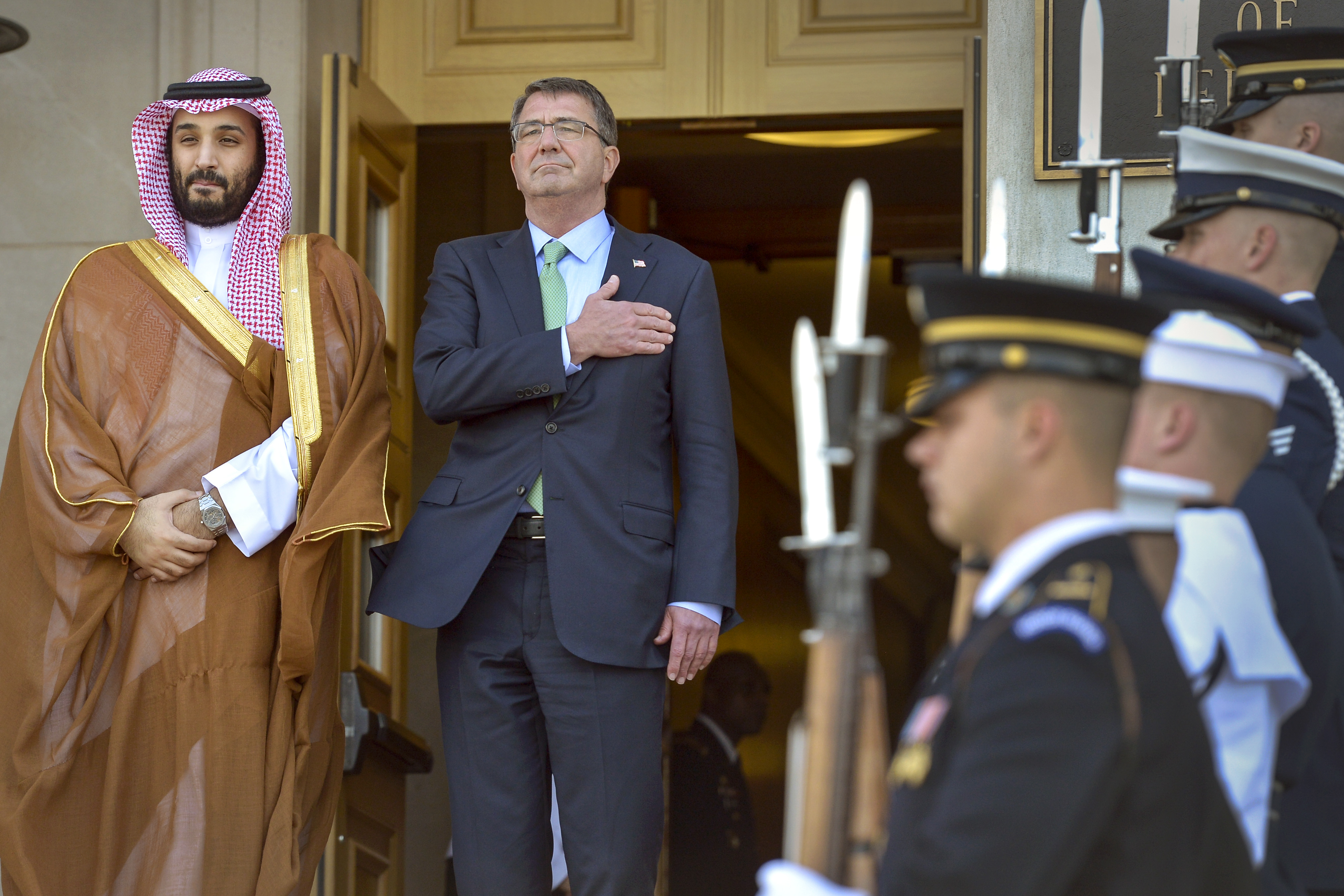 U.S. Defense Secretary Ash Carter places his hand over his heart as the national anthem plays during an honor cordon to welcome Saudi Defense Minister Mohammed bin Salman Al Saud to the Pentagon, May 13, 2015. The two defense leaders met to discuss matters of mutual interest.